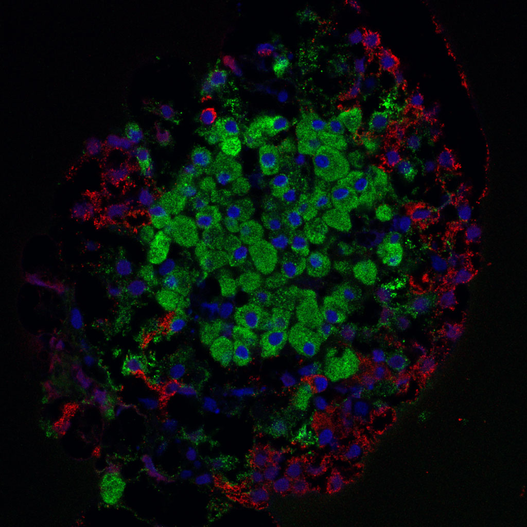 Islet of Langerhans isolated from rat pancreas. Laser scanning confocal microscope image. 63x, oil imm. objective. Colors explanation: Nuclei stained blue with DAPI Insuline (beta-cells) stained green with anti-insuline dye conjugated Abs Glucagon (alpha-cells) stained red with anti-glucagon dye conjugated Abs